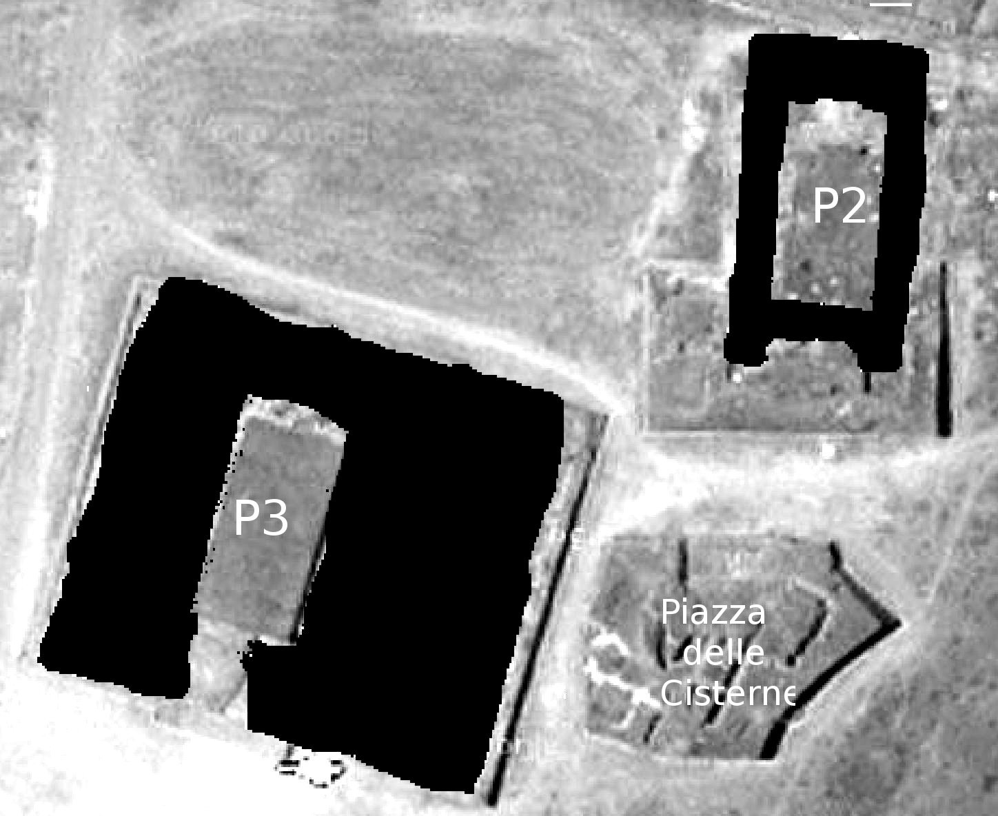 Sacred Area of Ishtar